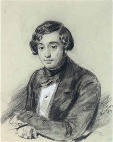 Portrait of a Young Man by Nikolai Tikhobrazov